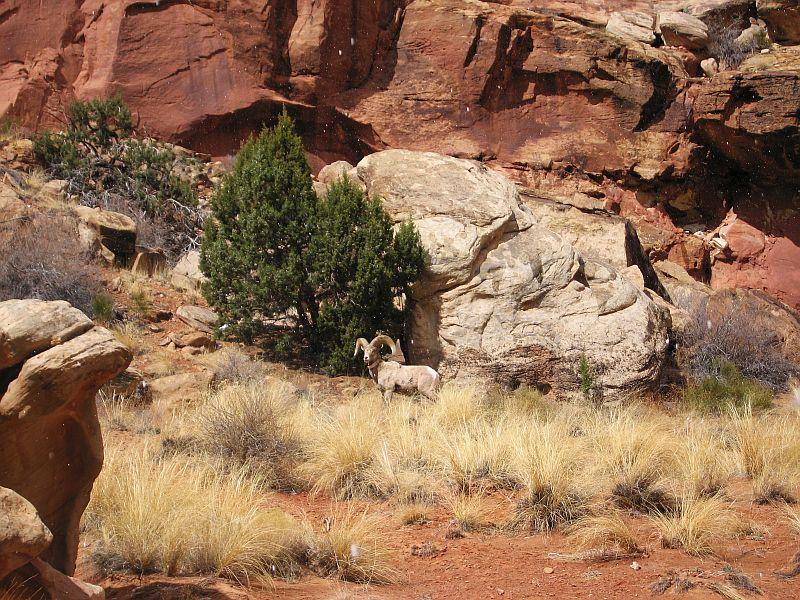 A Desert Bighorn Sheep in Capitol Reef National Park.